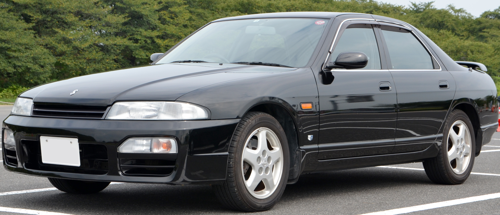 Nissan Skyline GTS25 Type S/S